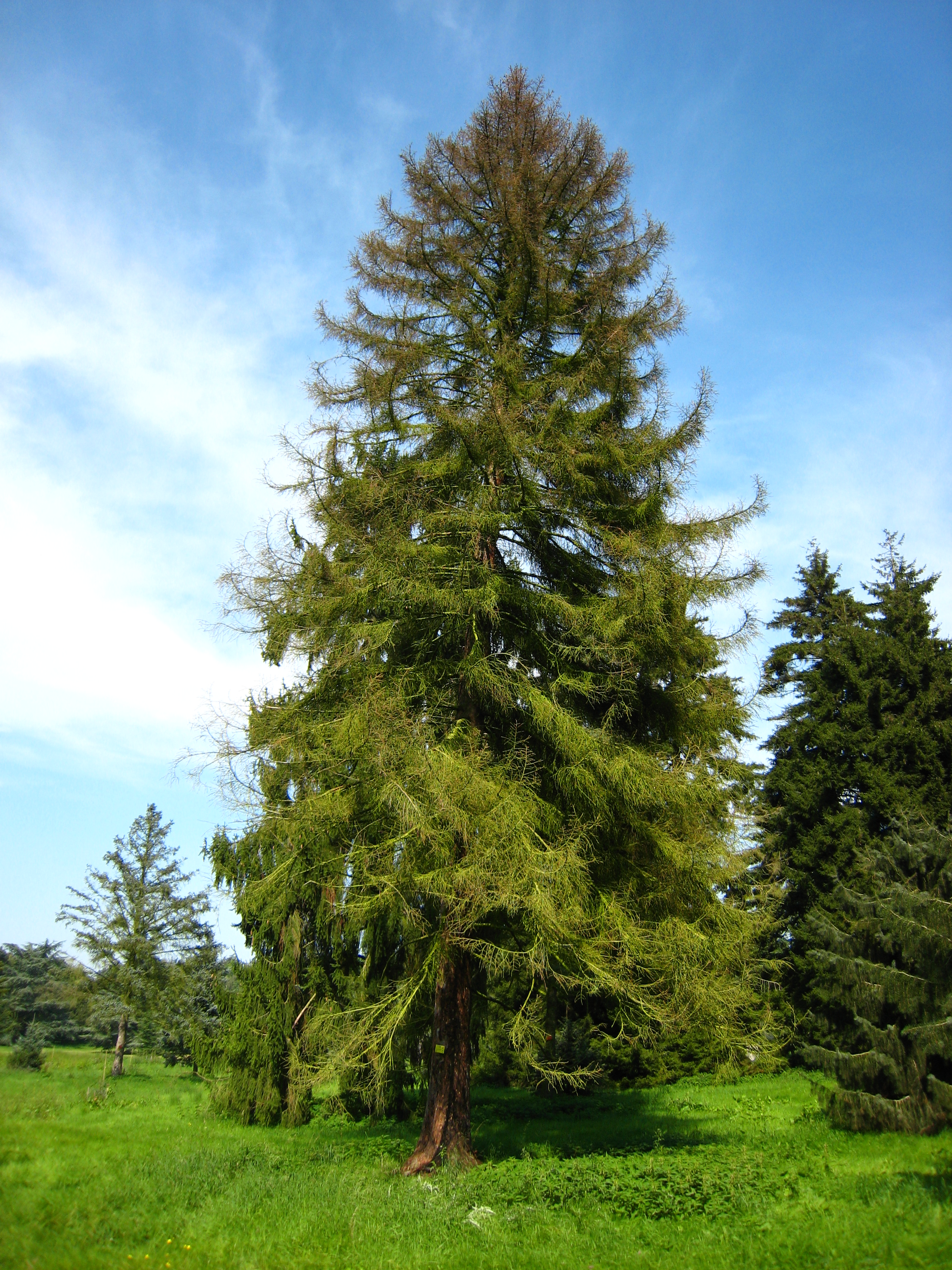 Dead Picea koyamae in the Arboretum de Chèvreloup in Rocquencourt